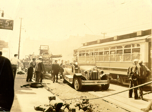 Aftermath of the Chicago Union Stock Yards fire of 1934, not the December 22 to December 23, 1910 fire.